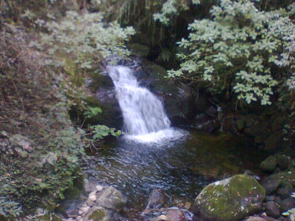 Small waterfall near Caledonia Mountain - Nova Friburgo/RJ - Brazil